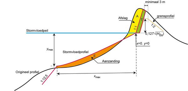 erosion profile according to the Dutch method